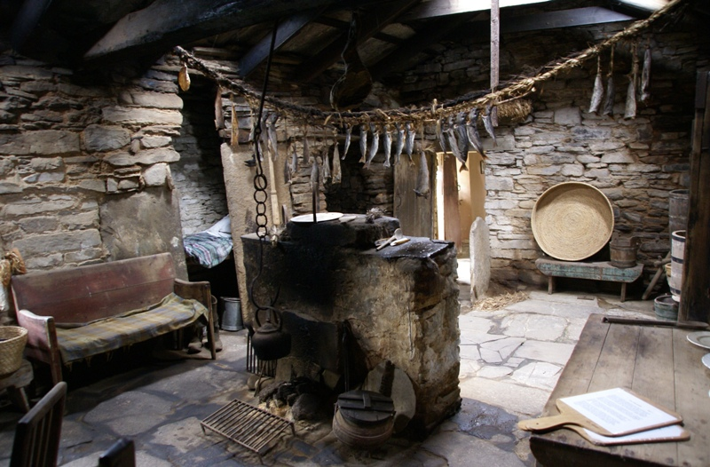 Kirbuster Farm Museum, Mainland, Orkney, Scotland. Interior with neuk-bed (left).